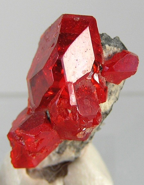 Realgar Locality: Royal Reward Mine, Green River Gorge, Franklin, King County, Washington, USA (Locality at ) Size: 2.2 x 1.1 x 0.8 cm. An aesthetic cluster of gemmy, bright, cherry-red realgar crystals nicely attached to a bit of matrix. This piece is from the less well-known Royal Reward Mine of Washington. The specimen probably dates to the 1970s. Ex. Jaime Bird Collection.